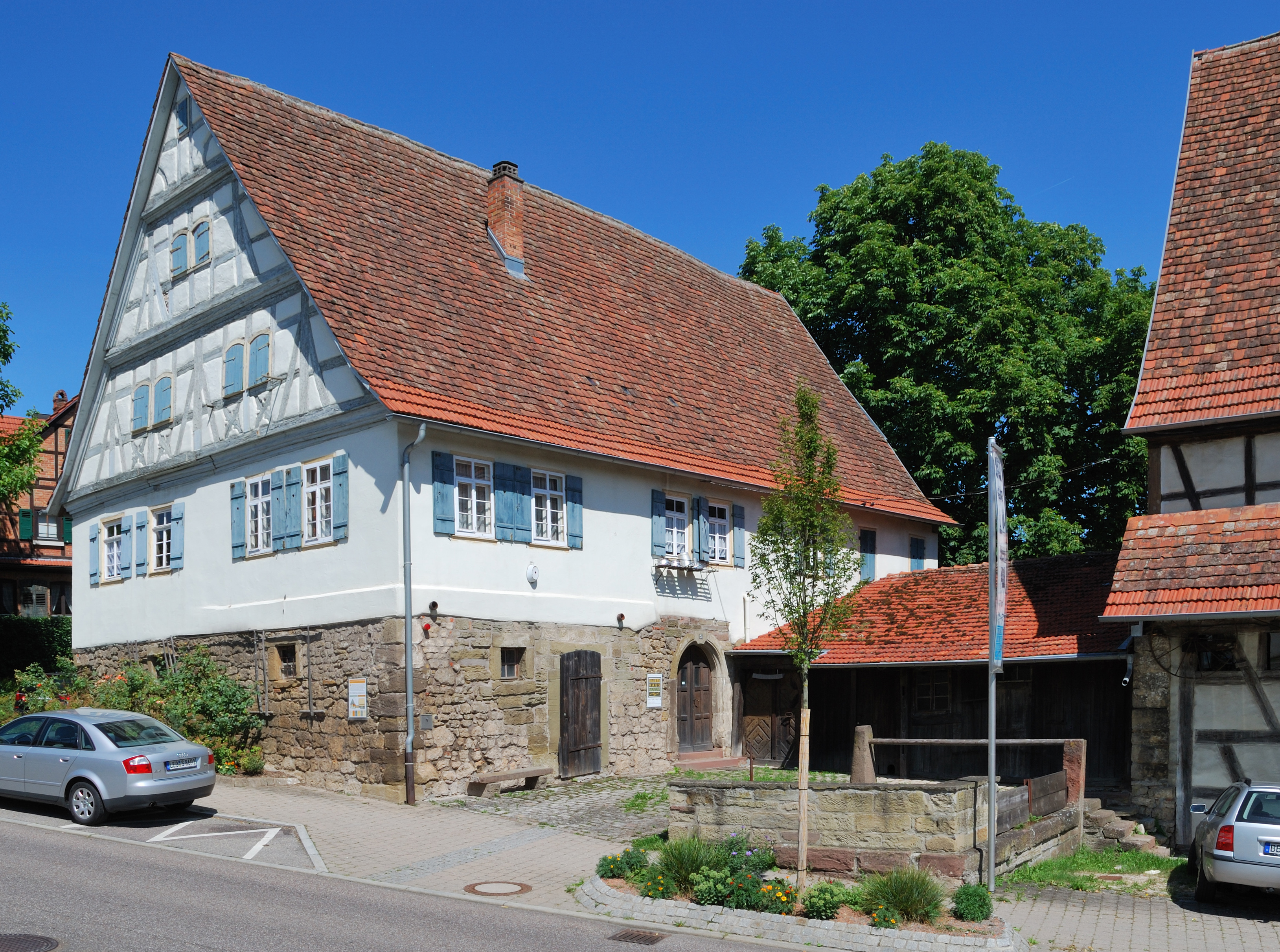 Farmhouse museum in Gebersheim in the German Federal State Baden-Württemberg.